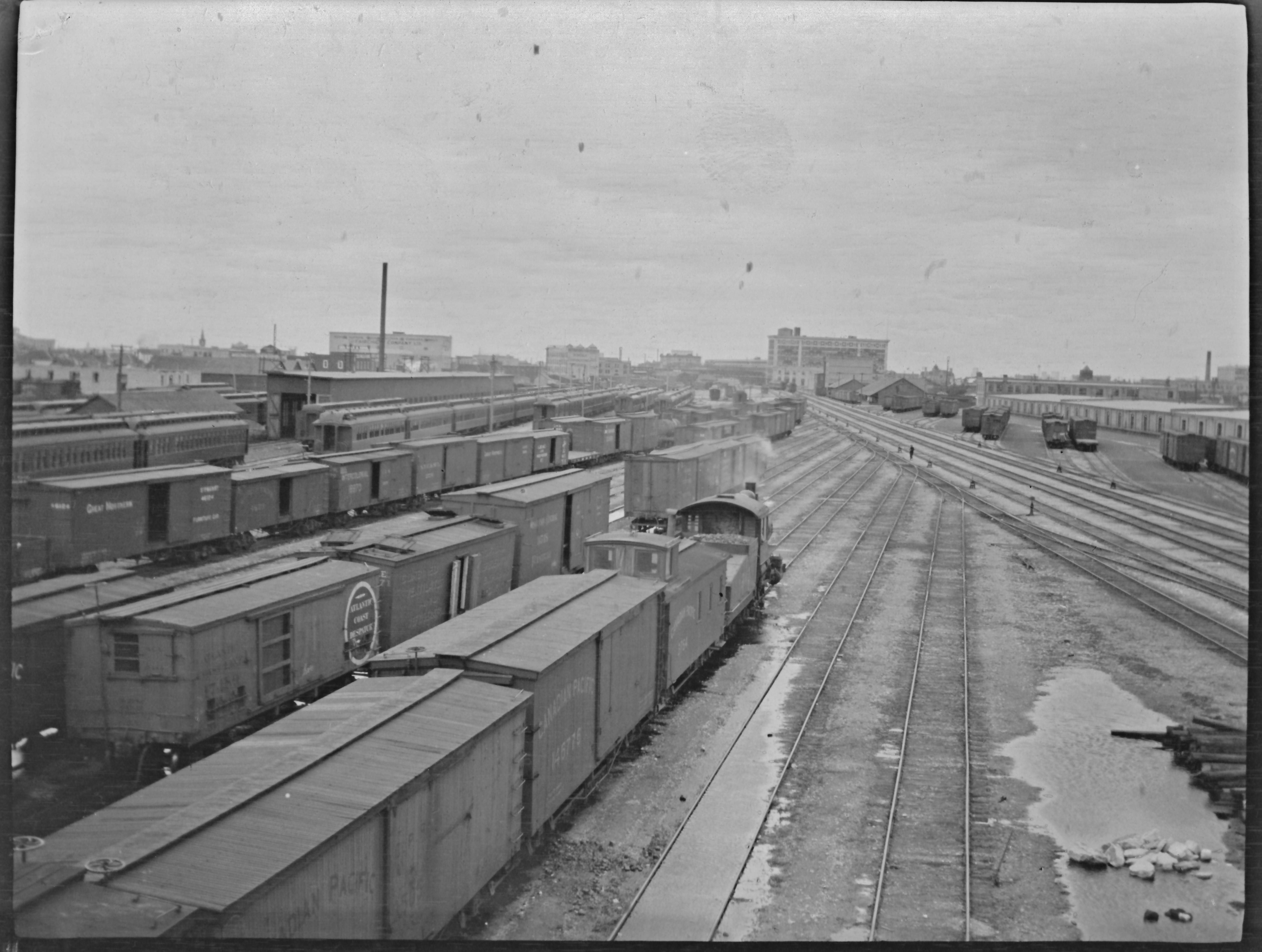 "C.P.R. tracks looking east. Wpg." Railways cars and tracks in Winnipeg, Manitoba, taken in 1907.